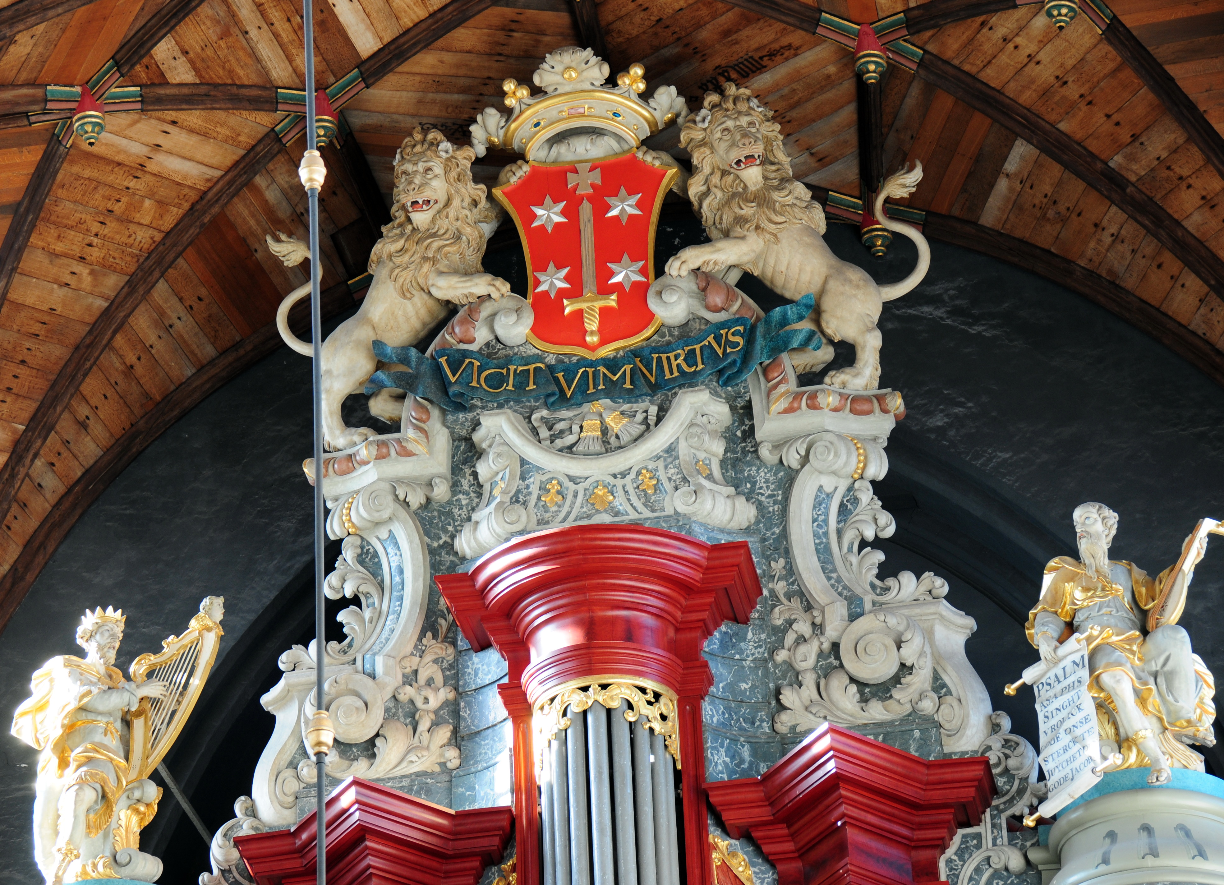 Detail of the famous organ A.D. 1756 at the St Bavochurch Haarlem from Christian Muller